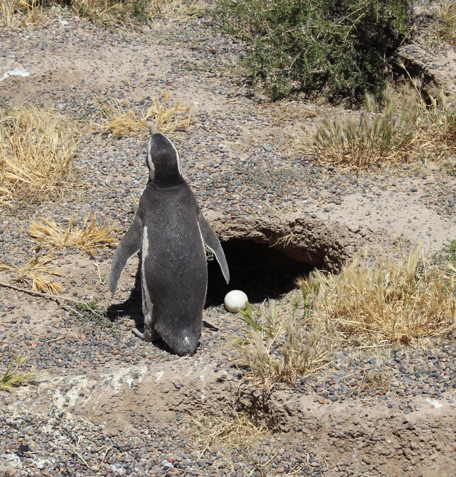 Spheniscus magellanicus . Nest and egg.